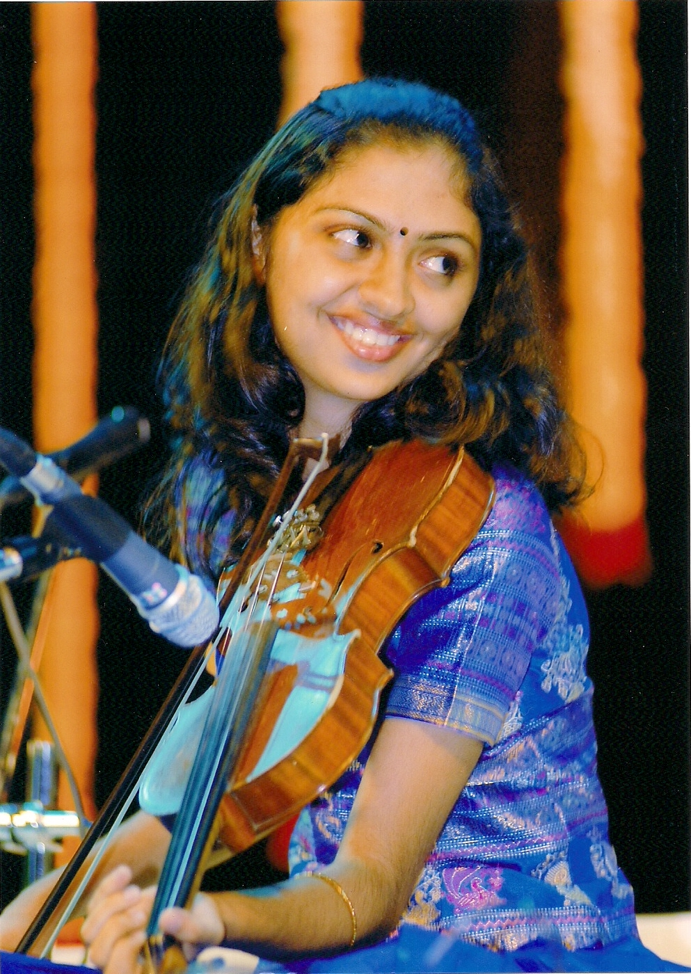 Ragini Shankar performing at a concert